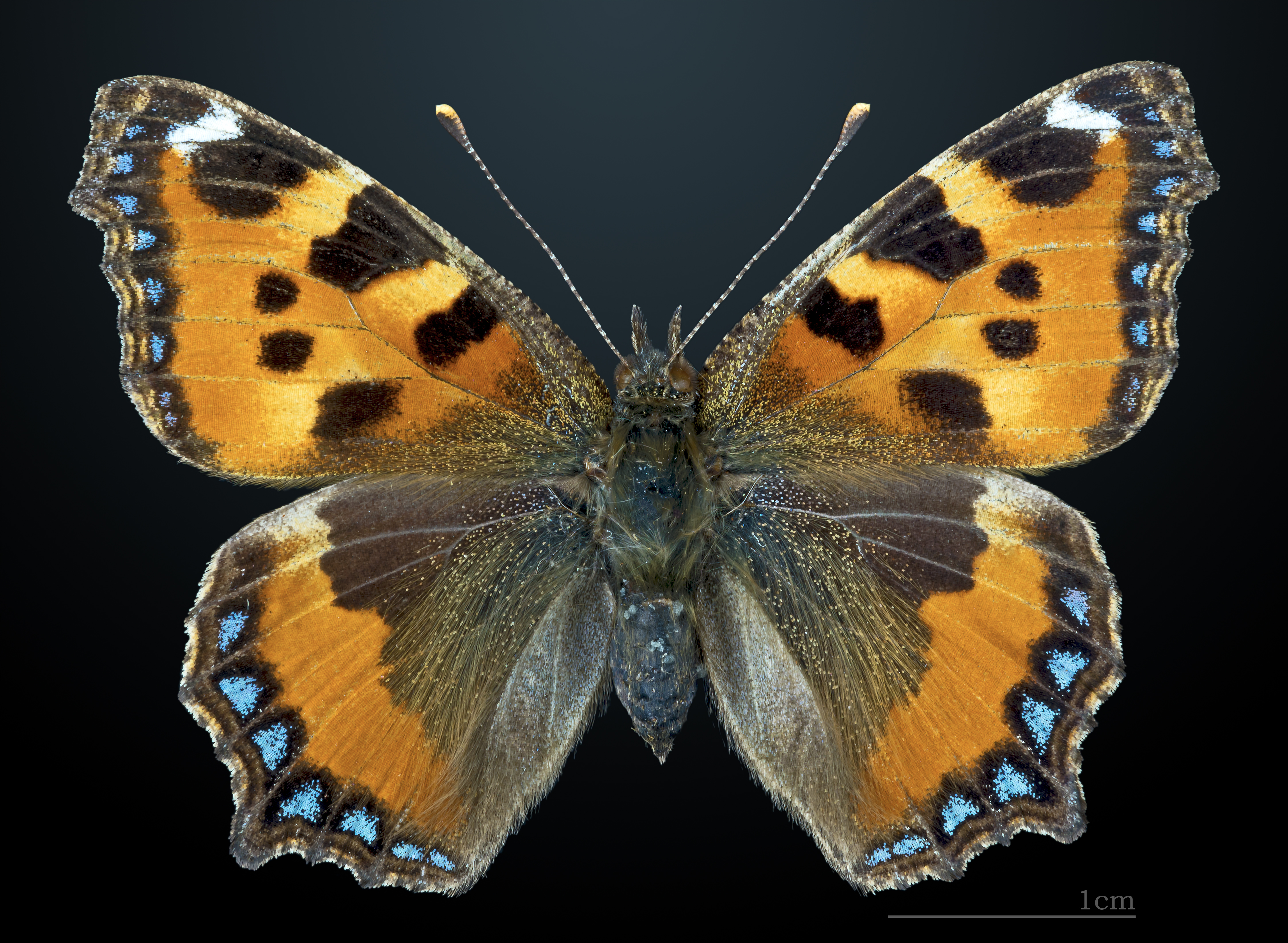 small tortoiseshell - Dorsal side